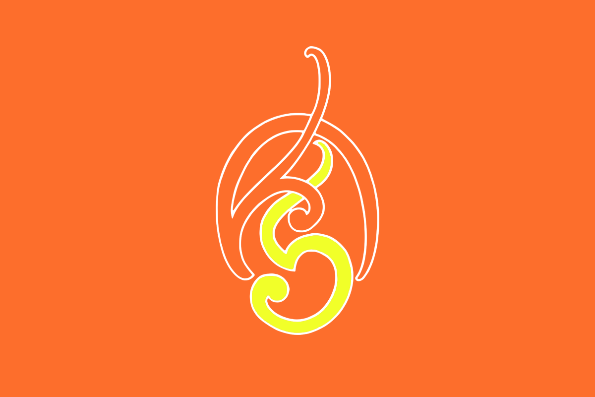 Royal Cypher of Princess Srirasmi, the Royal Consort of Crown Prince Maha Vajiralongkorn, with the Orange flag (the Princess’ birthday colour)